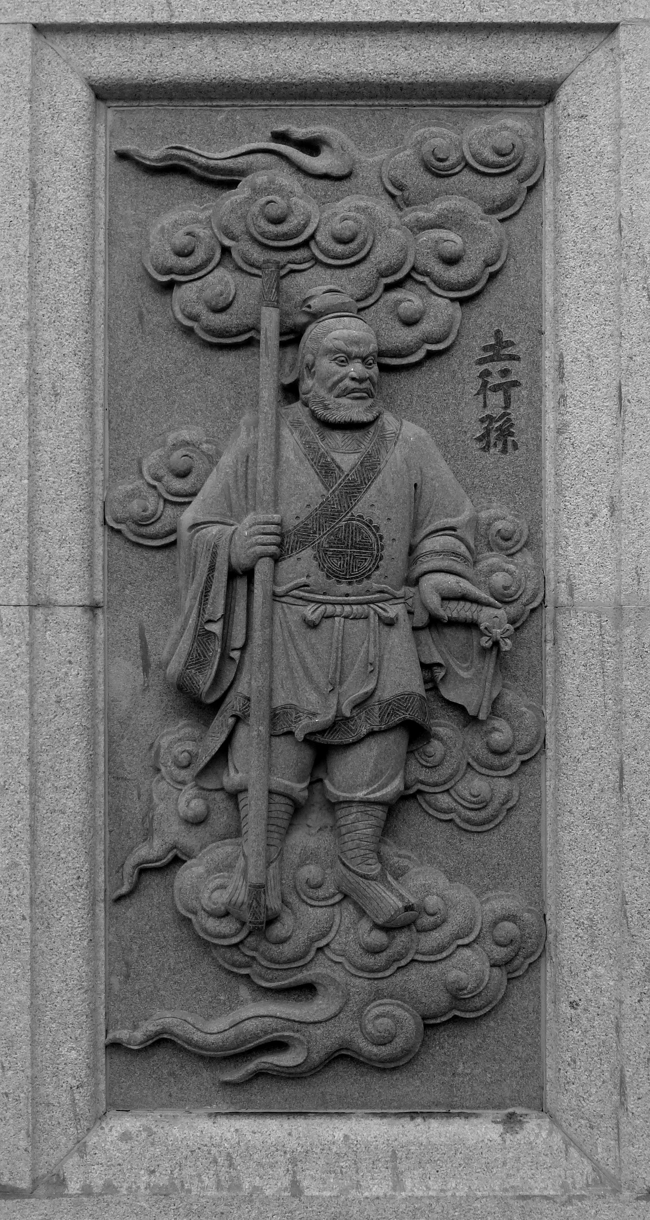 082 Tu Xing Sun, Investiture of the Gods at Ping Sien Si, Pasir Panjang, Perak, Malaysia Photograph from the Ping Sien Si Temple in Perak, Malaysia taken by Anandajoti.